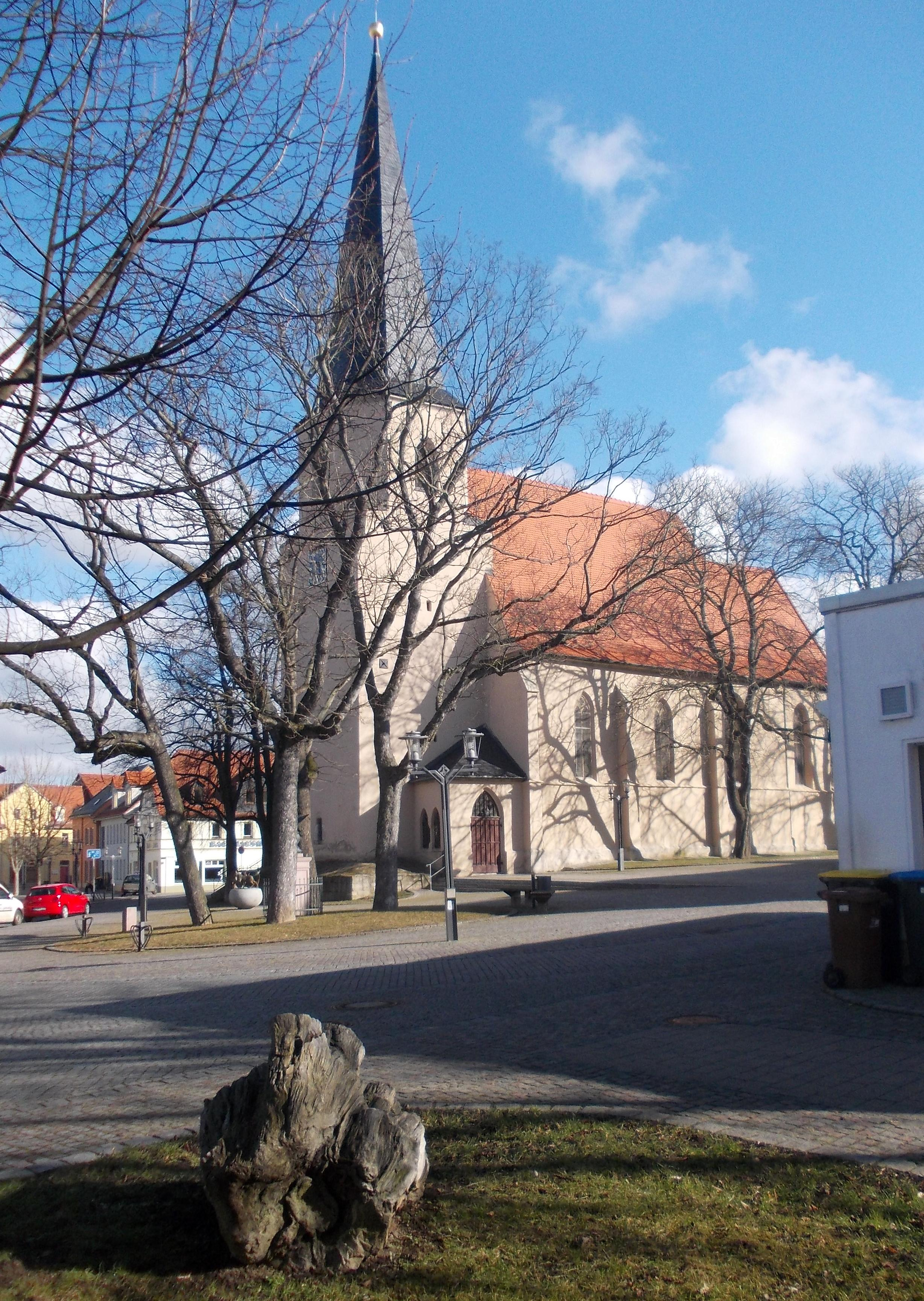 St. Peter's Church in Hohenmölsen (district: Burgenlandkreis, Saxony-Anhalt)